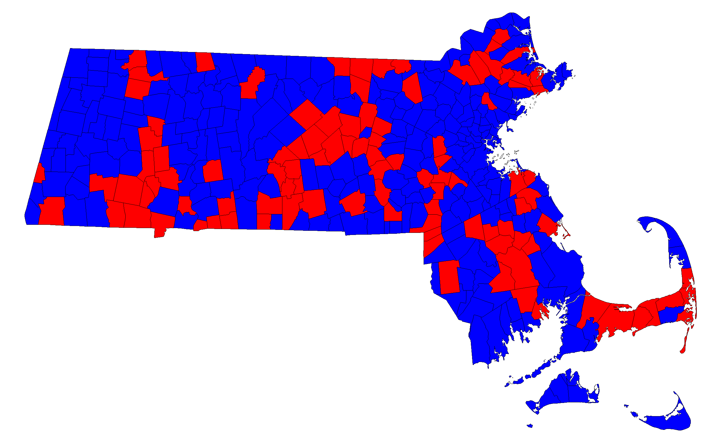 Results of the 1994 United States Senate election in Massachusetts. Towns in blue won by Kennedy, red by Romney. Data procured at